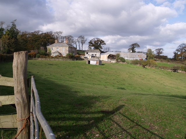 Bodgate A rather grand farmhouse in an area transferred from Devon to Cornwall in 1974. Seen from the start of the footpath to Godcott Farm.